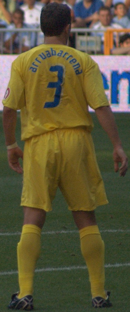 Rodolfo Arruabarrena. Image cropped from original at flickr.